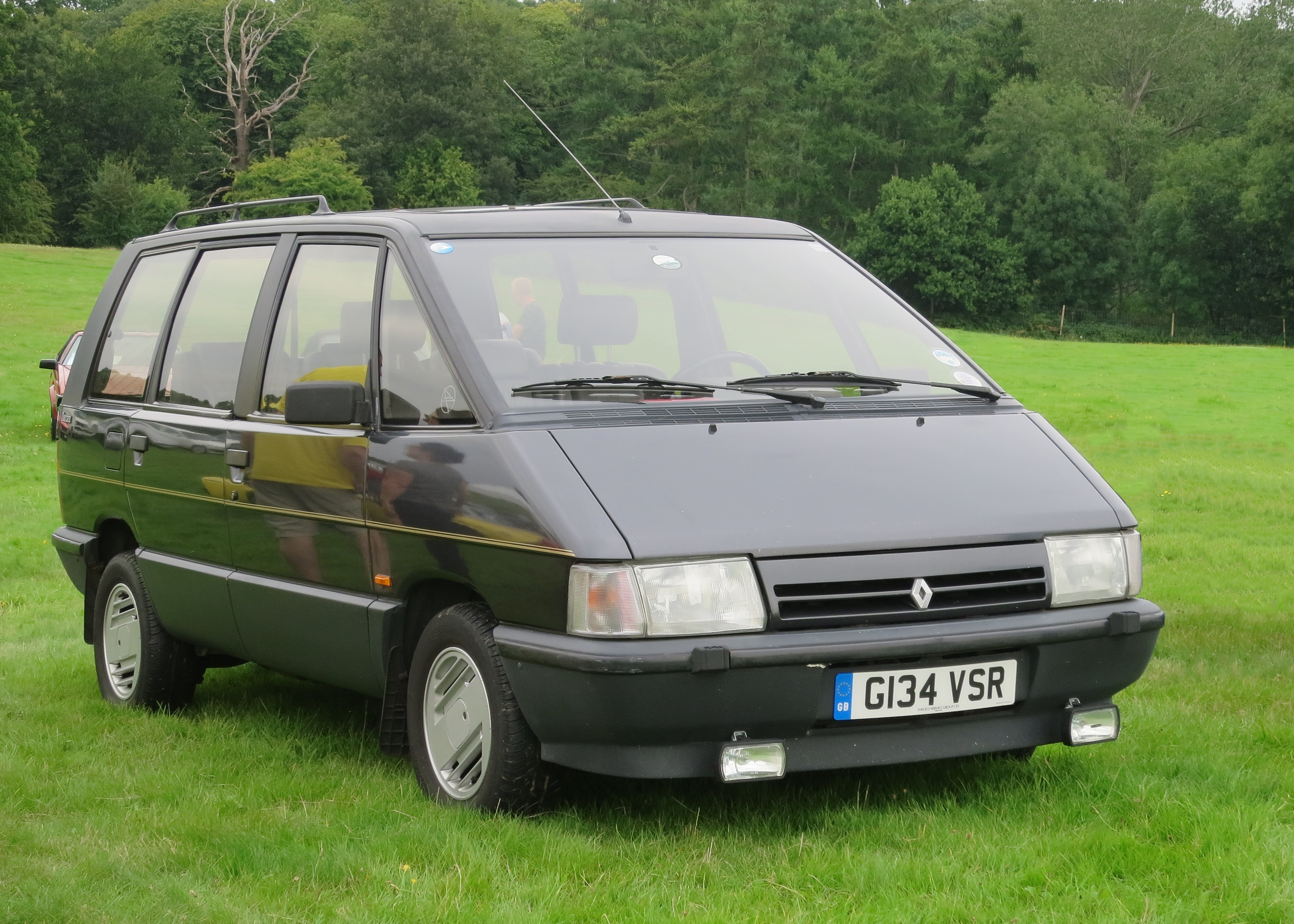 Renault Espace I (1990)